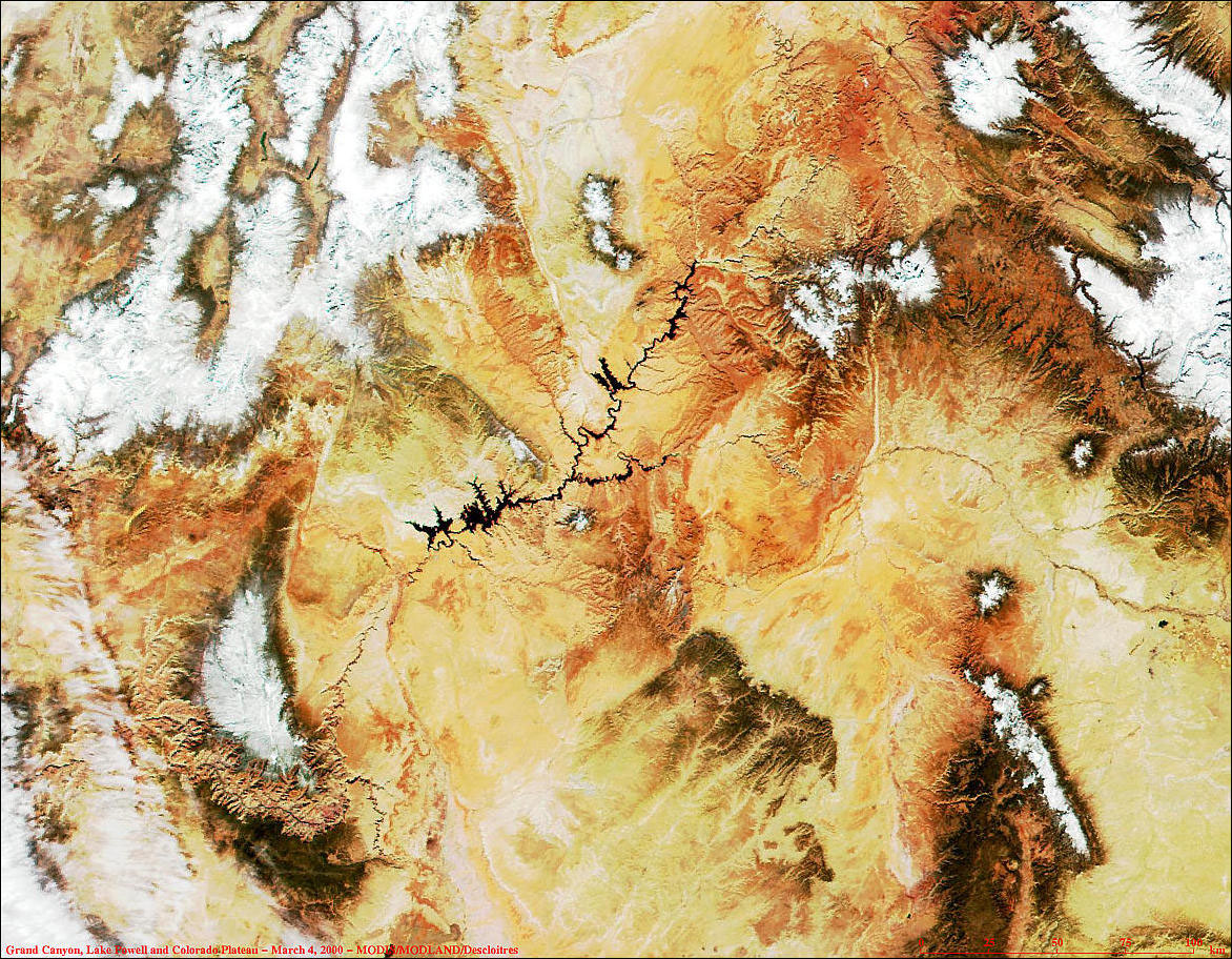 Grand Canyon, Lake Powell and the Colorado Plateau Resolution: 385 meters; MODIS Data Type: MODIS-PFM; MODIS Band Combination: 1, 4, 3